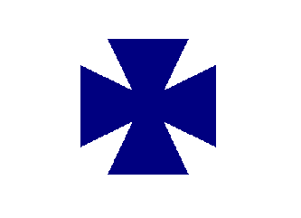 V Corps, Army of the Potomac, 3rd Division Badge